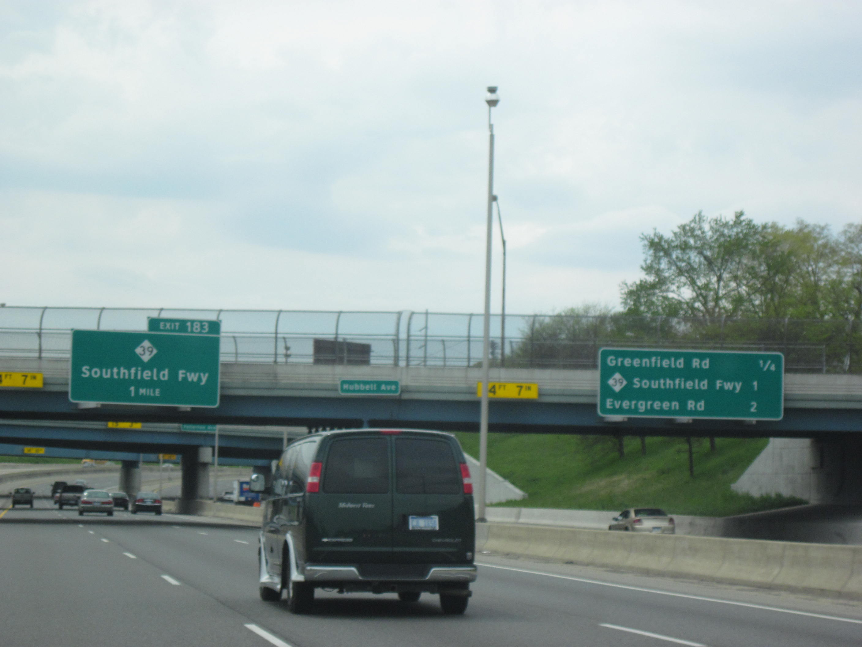 Interstate 96 in Detroit, Michigan showing the express-local setup